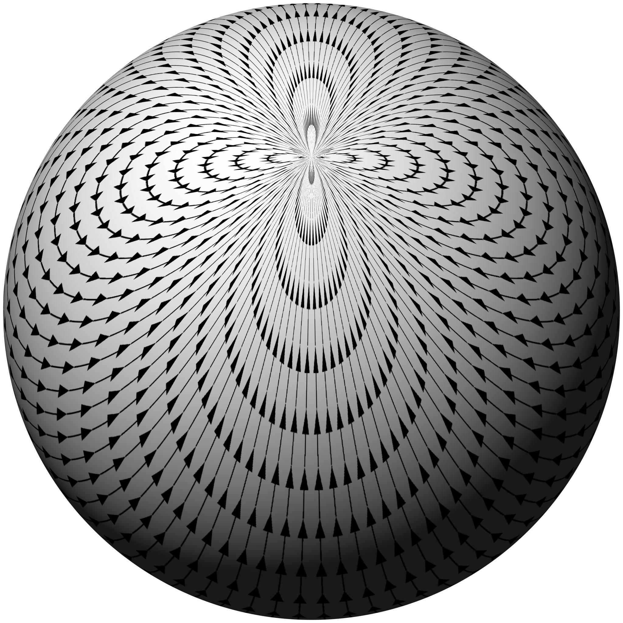 Illustration of the Hairy ball theorem - a continuous tangent vector field on the sphere with only one pole